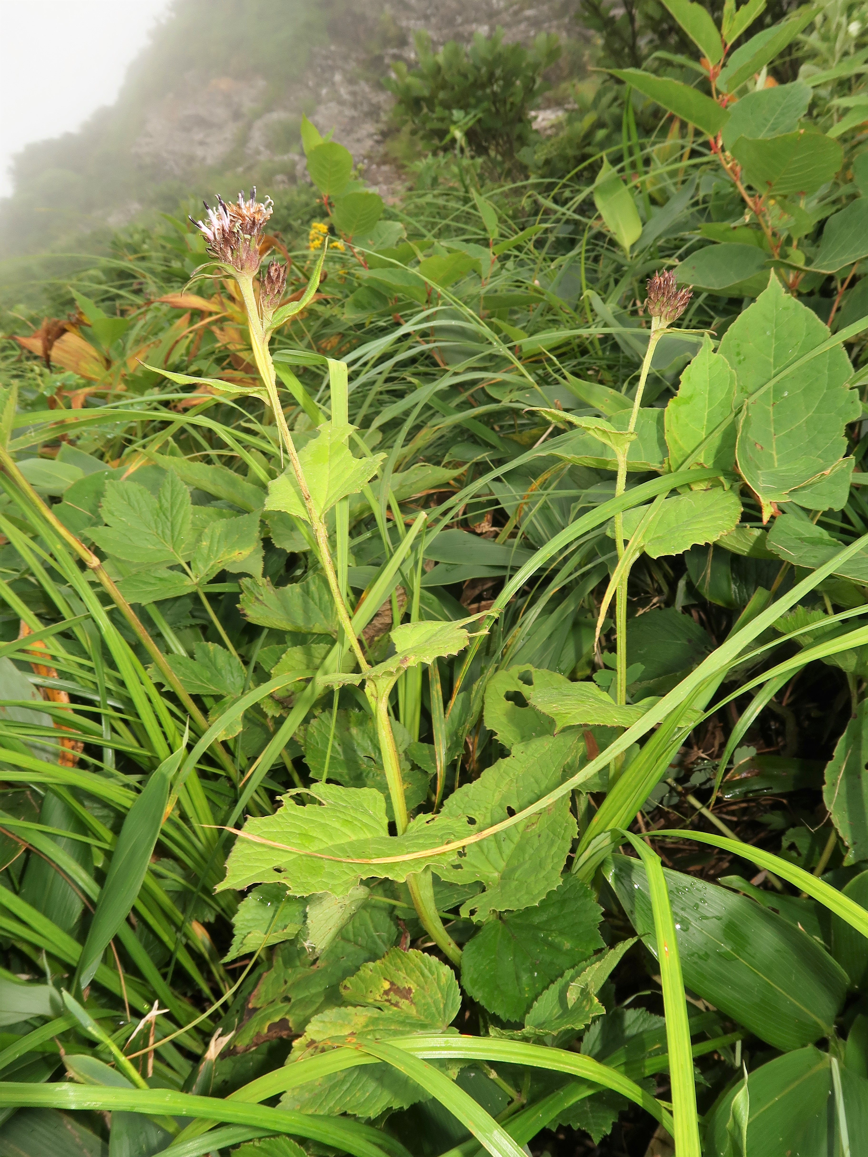 Saussurea sessiliflora, Mount Tanigawa-dake, Gunma pref., Japan